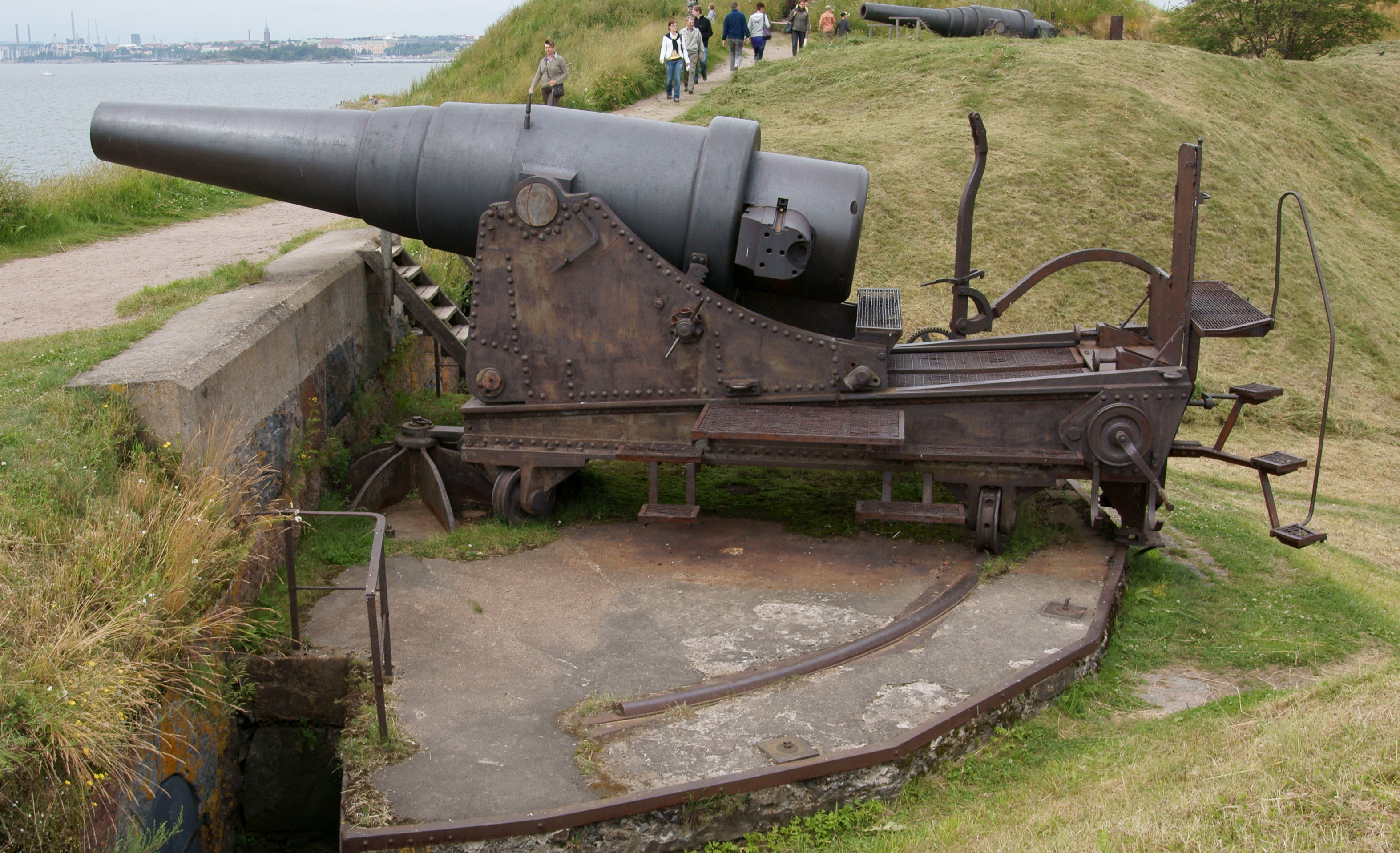 Russian coastal artillery gun, displayed in Kustaanmiekka, Suomenlinna.